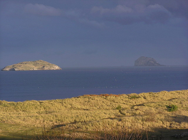 Craigleith (left) and Bass Rock (right)